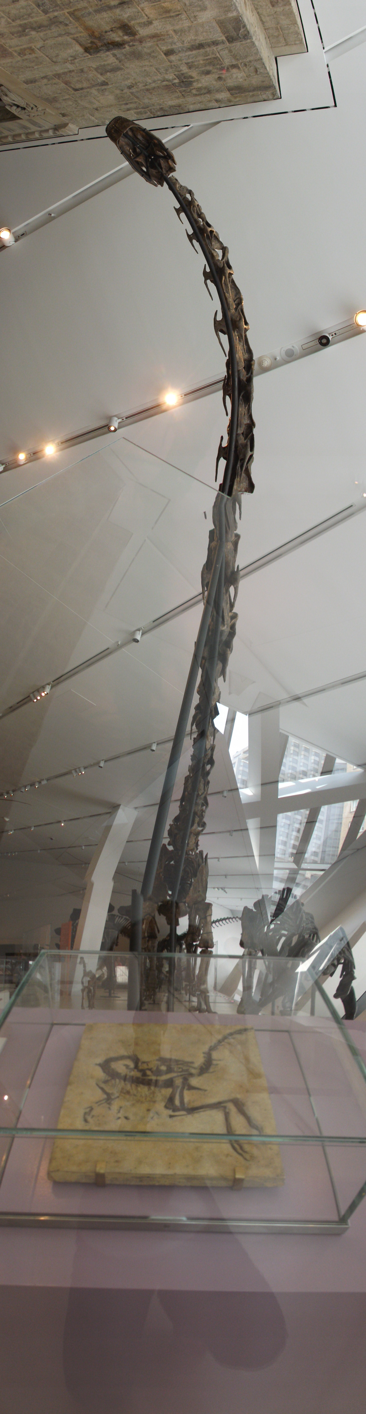 Barosaurus in gallery